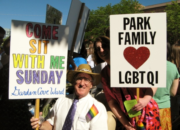 Mormons Building Bridges